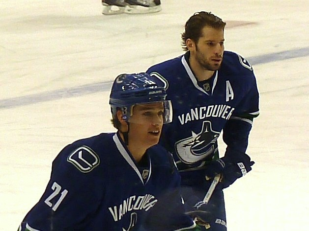 Vancouver Canucks forwards Mason Raymond and Ryan Kesler during a game against the St. Louis Bleus on February 25, 2011.